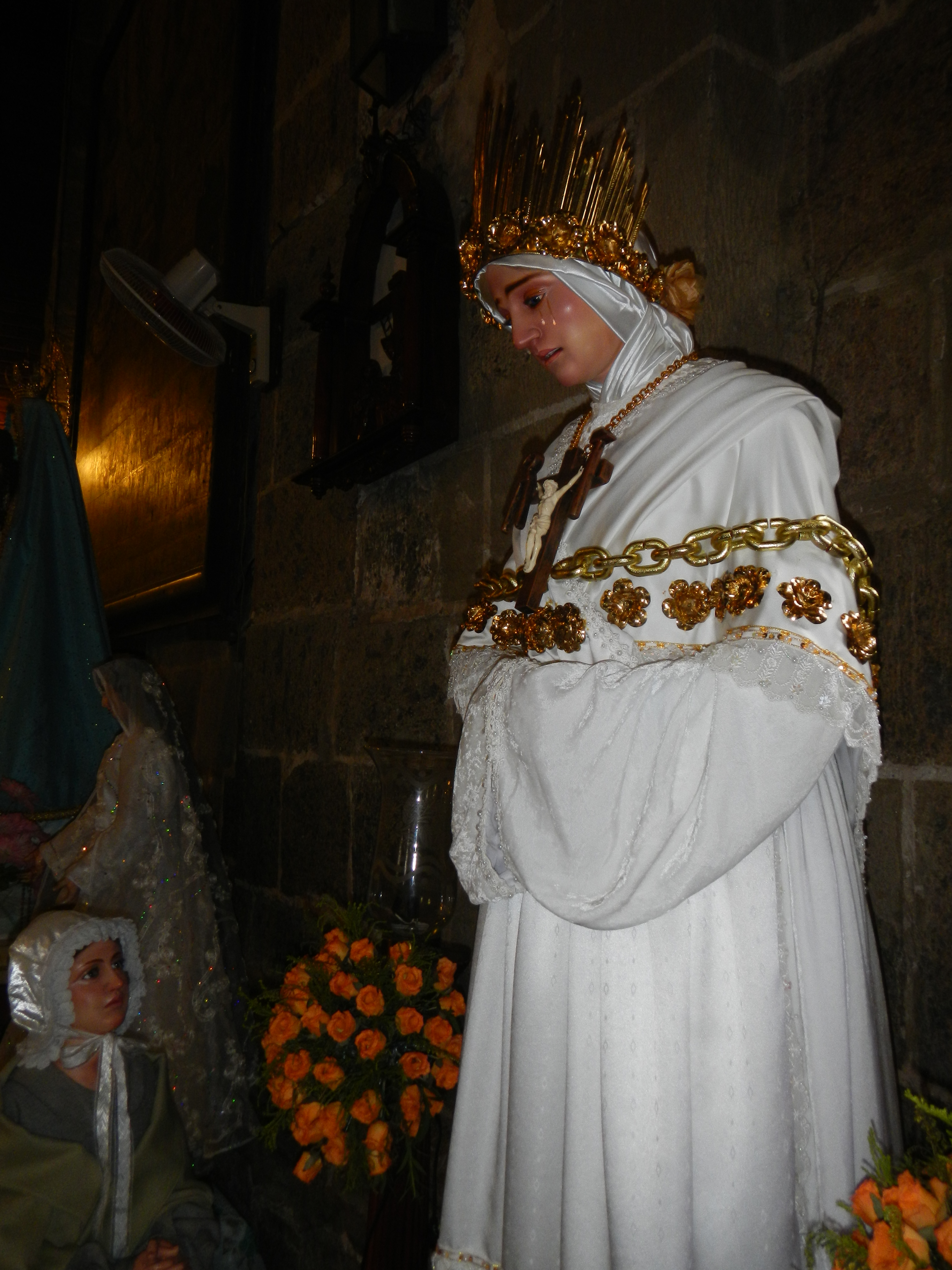 UploadWizard photos --- (general description) of (landmarks, heritage, culture, comprehensive, photography) of – Paete, Laguna[1] - Saint James the Apostle Parish Church of Paete, Paete, Laguna[2] - (belongs to the Episcopal District IV[3] -- Roman Catholic Diocese of San Pablo [4] [5] Vicariate of Saint James the Apostle Poblacion, Paete 4016 Feast day: July 25 Parish Priest: Father Joseph B. dela Rosa, VF) - Paete, Laguna[6] (a fourth class municipality in the province of Laguna, [7])Philippines; the latest census, a population of 23,523- Wood_carving [8] industry - proclaimed "the Carving Capital of the Philippines" on March 15, 2005 by Philippine President Arroyo; politically subdivided into 9 barangays[9] situated in Laguna, Region 4, Philippines, its geographical coordinates are 14° 21' 46" North, 121° 29' 1" East ).